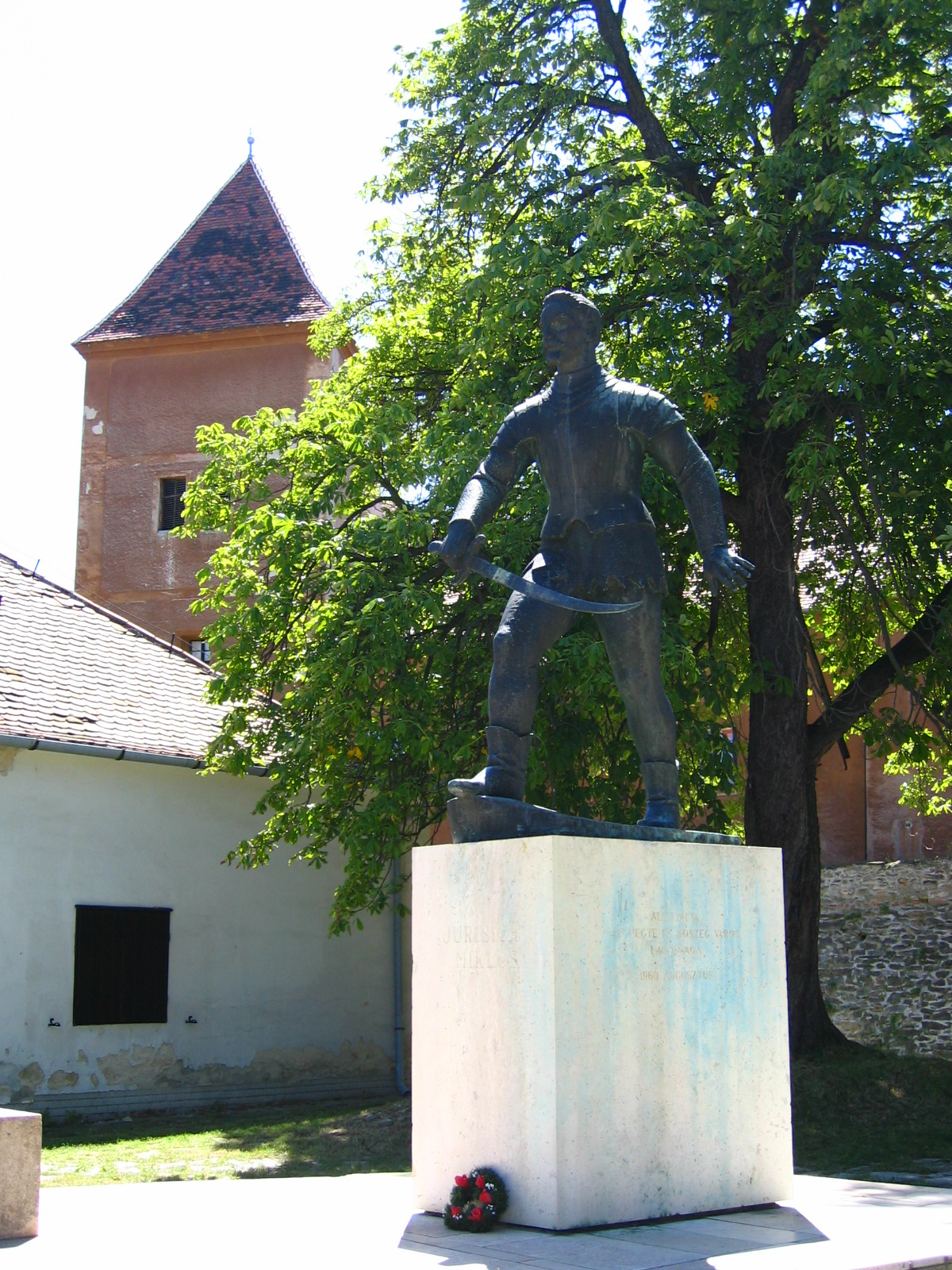 Statue of Nikola Jurišić (Miklós Jurisics) in Kőszeg, Hungary. Sculptor: Sándor Mikus (1903–1982) in 1963